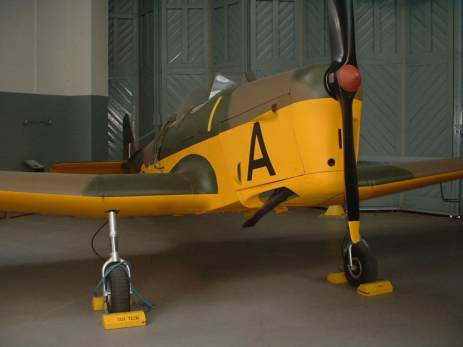 Miles Magister Military Trainer aircraft, Imperial War Museum, Duxford Photographed by me (Gaius Cornelius) on 05-Jun-06.